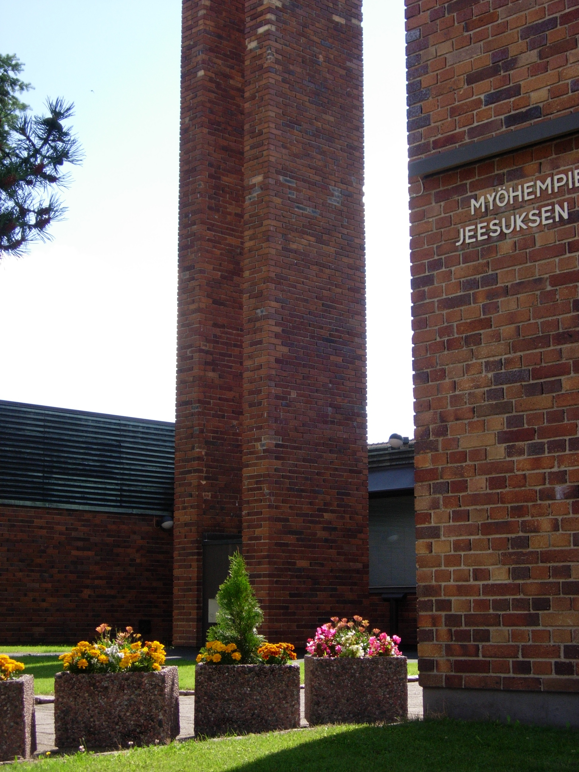 A meetinghouse of The Church of Jesus Christ of Latter-day Saints in Turku, Finland.